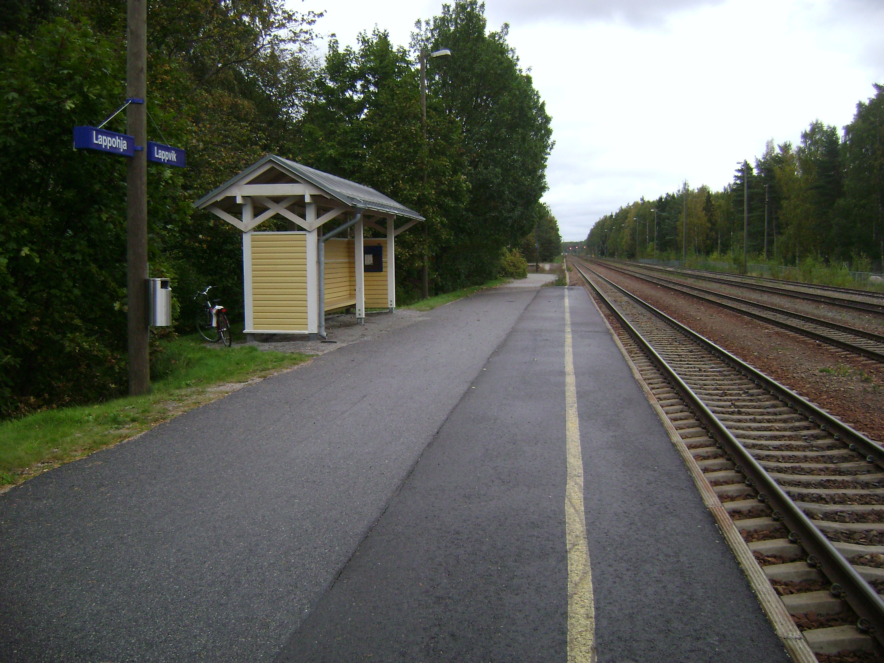 Lappohja railway station platform.